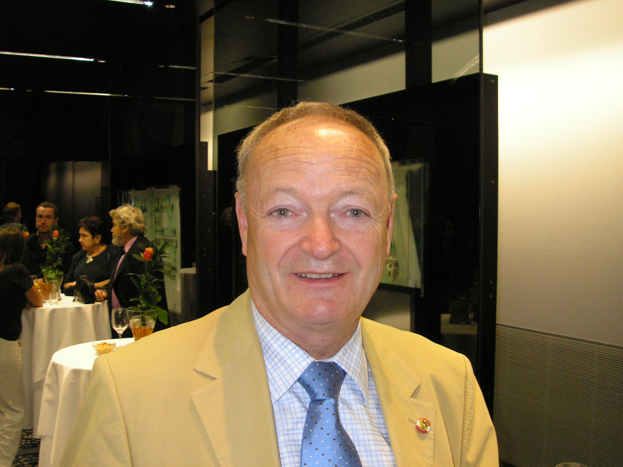 Image of Andreas Khol (Andreas Edler von Khol) of the ÖVP in the Parliament (Austria) press-centre. Taken during the Ö1 radio documentation on Simon Wiesenthal in September 2006. His family name was originaly "von Khol".